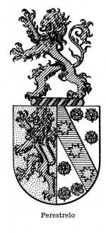 Coat of Arms of the Perestrelo family (as gicen to Bartolomeu Perestrelo)